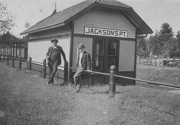 The Lake Simcoe Junction Railway connected the Toronto & Nipissing Railway lines to Lake Simcoe at Jackson's Point. The passenger station is a simple affair, but the line extends past this point to a wharf where ice was cut during the winter for shipment to Toronto